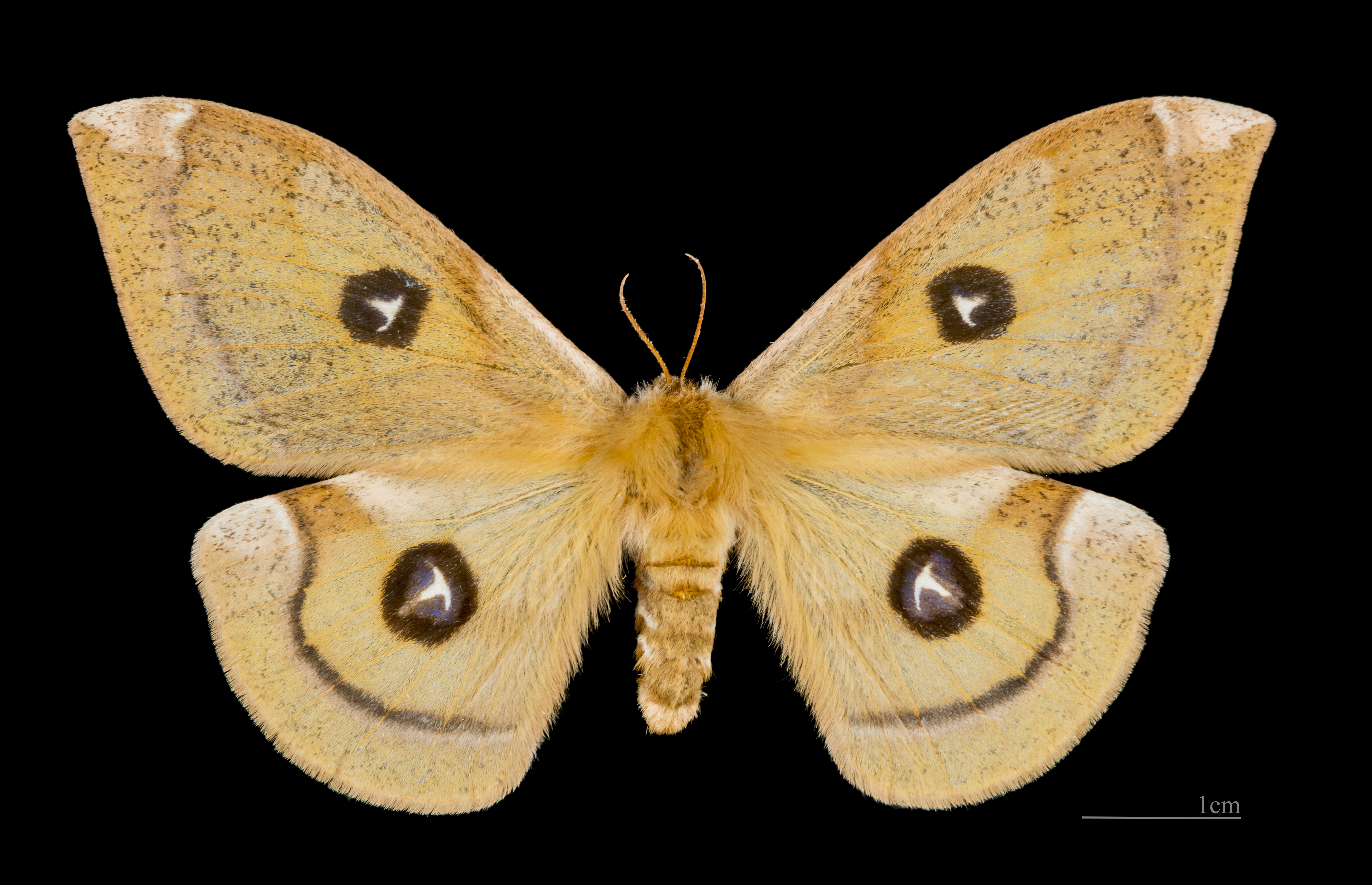 Tau Emperor. Dorsal side Face dorsale.